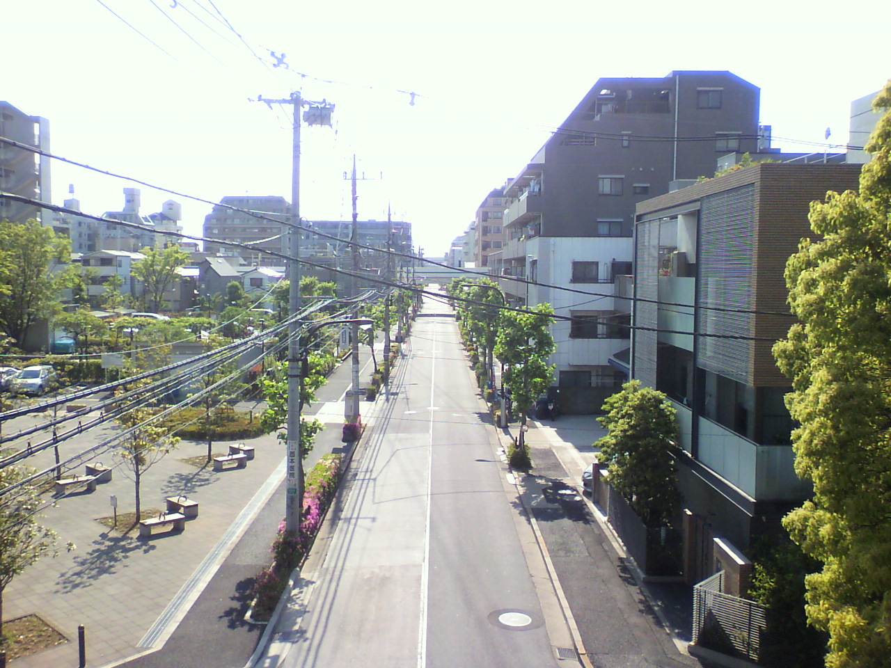 This is a landscape of Higashiayase 3 chome, Adachi city, Tokyo, Japan.